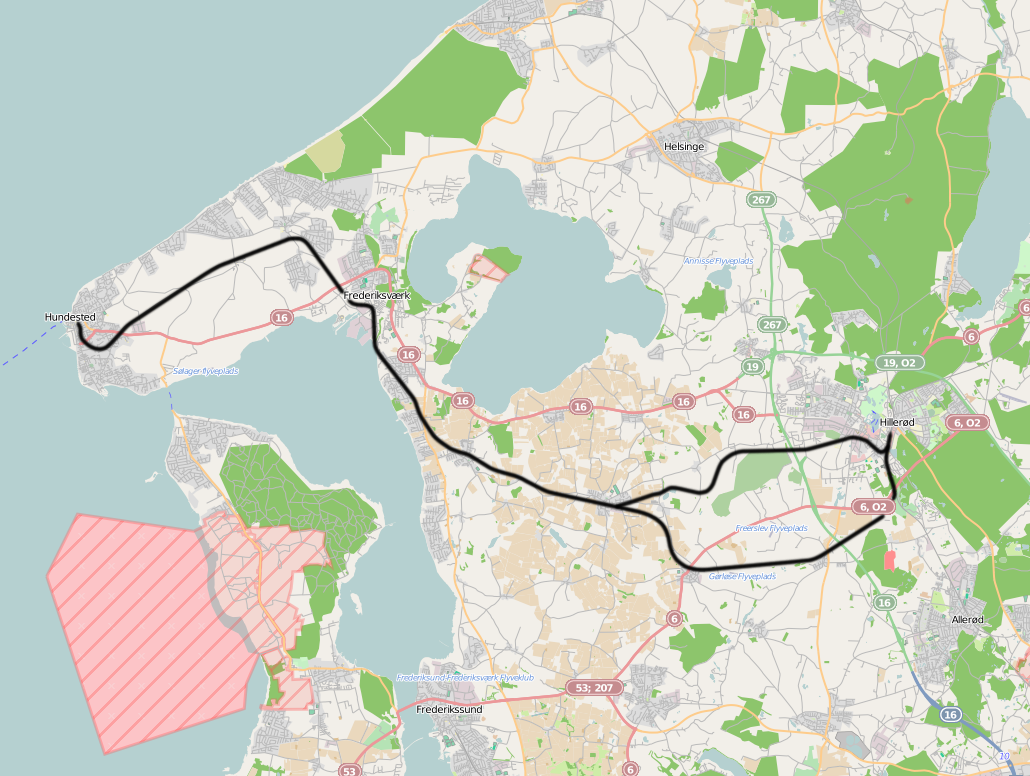 Railway line Hillerød - Hundested